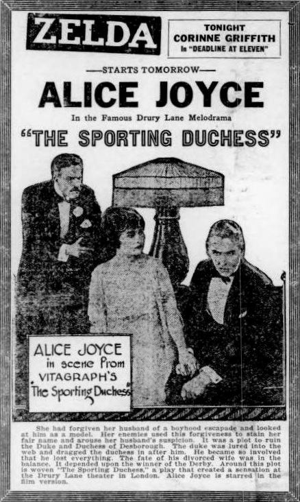 Newspaper ad for the American drama film The Sporting Duchess (1920) with Gustav von Seyffertitz and Alice Joyce, on page 5 of the May 22, 1920 Duluth Herald.